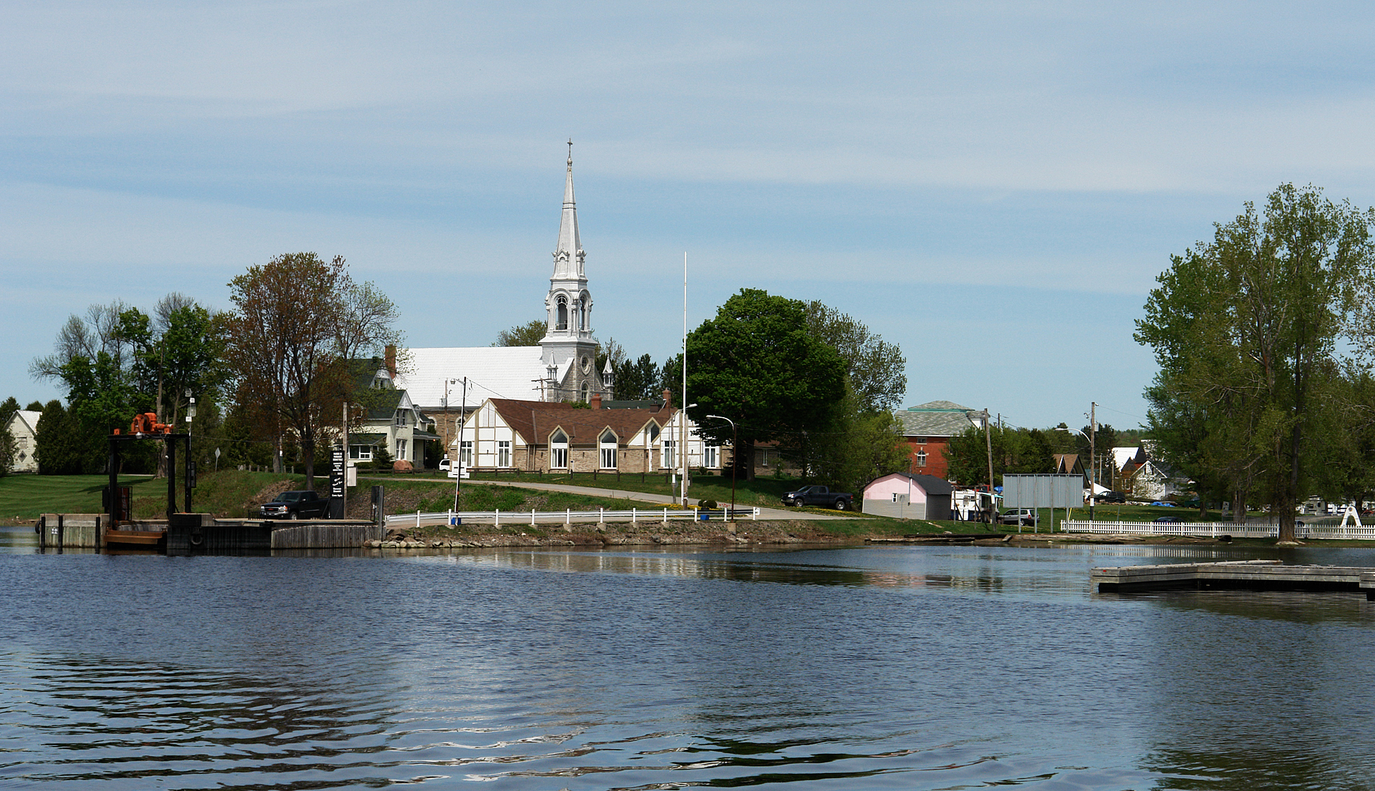 Quyon, a village located on the Ottawa River north of Aylmer, at the mouth of the Quyon River. Quebec, Canada.